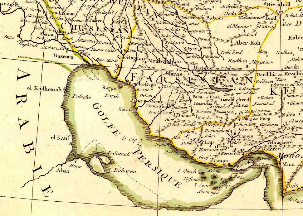 Farsistan, Laristan Carte de l'Empire de Perse. Projettee et assujettie aux observations astron. par Mr. Bonne, Hydrographe du Roi. A Paris, Chez Lattre Graveur, ordinaire de Monseigr. le Dauphin, rue S. Jacques a la Ville de Bordeaux. Avec privilege du Roy. 1787. Arrivet inv. & sculp.